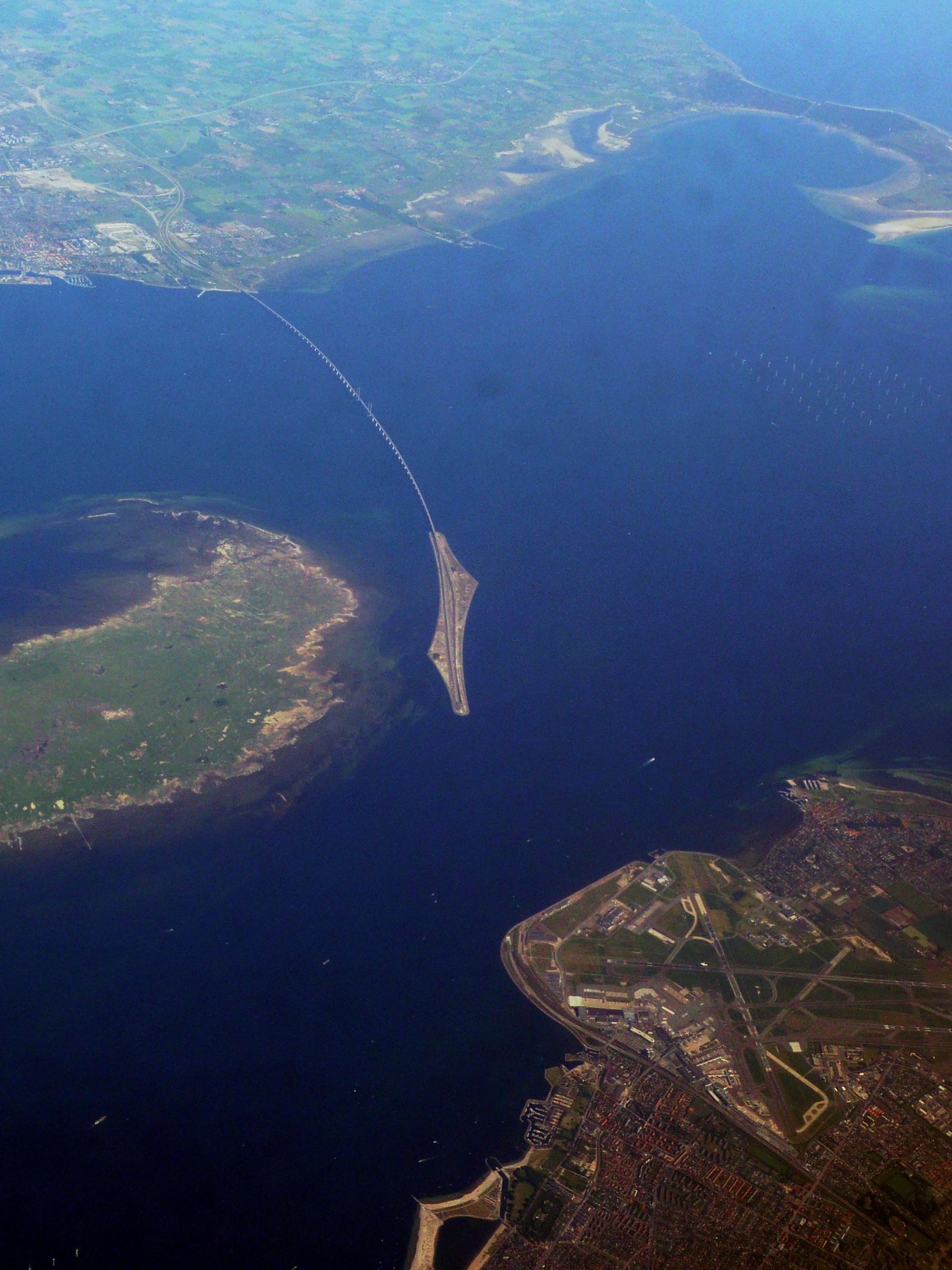 Oresund Bridge, view from top. June 2008